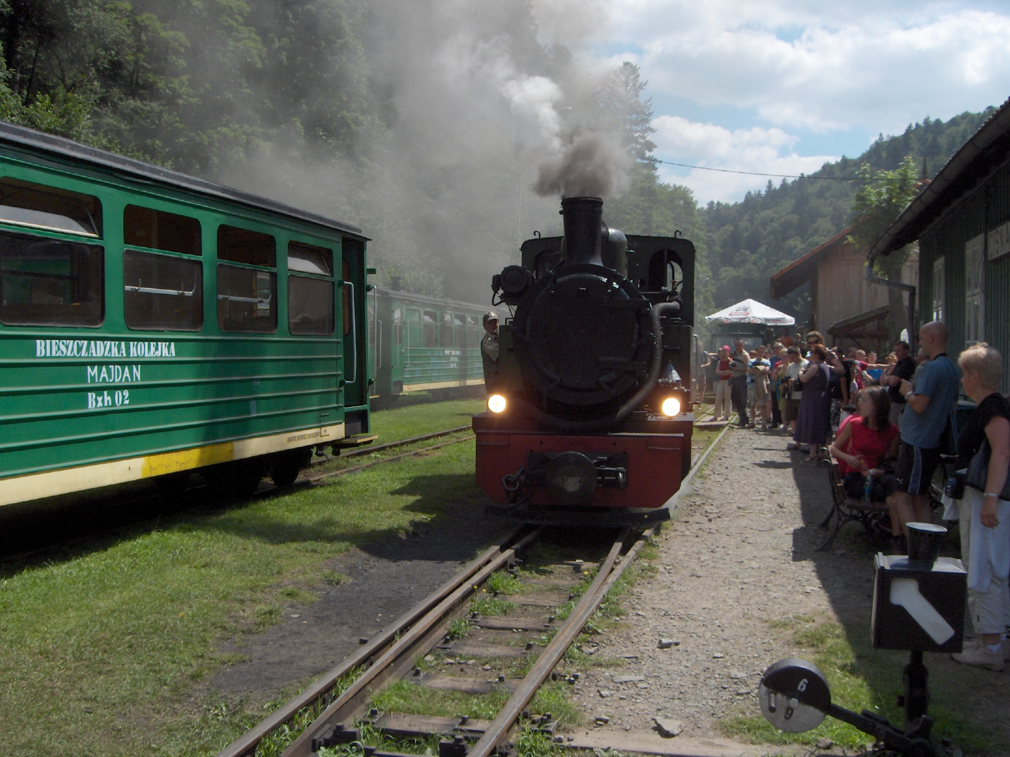 Locomotive Ty 1884 of rail transport "Majdan" in Bieszczady Mountains, Poland. Locomotive Las class, gauge 750 mm, built by Fablok, 1956, no. 4967